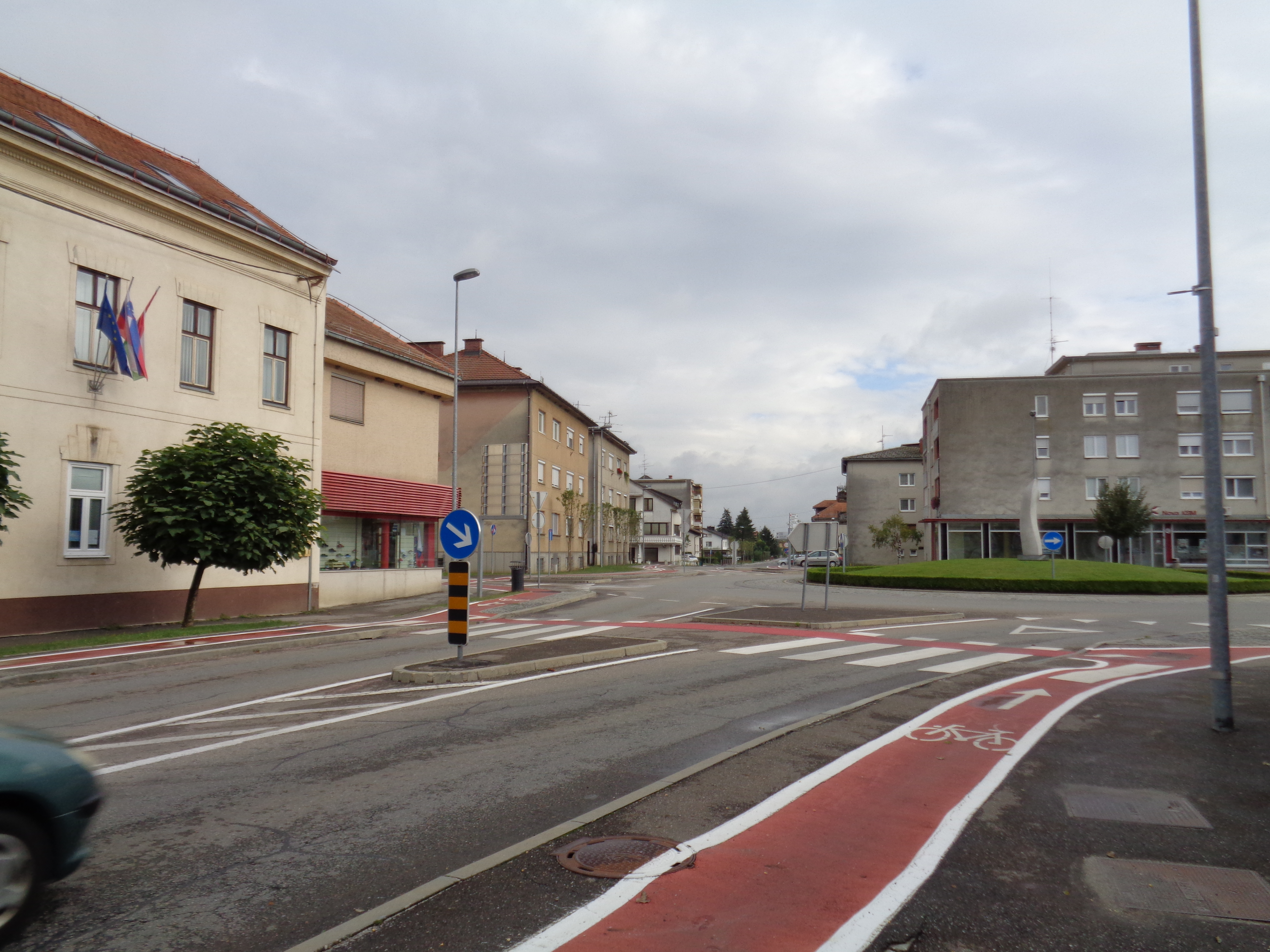 The Town of Lendava, Slovenia - centre